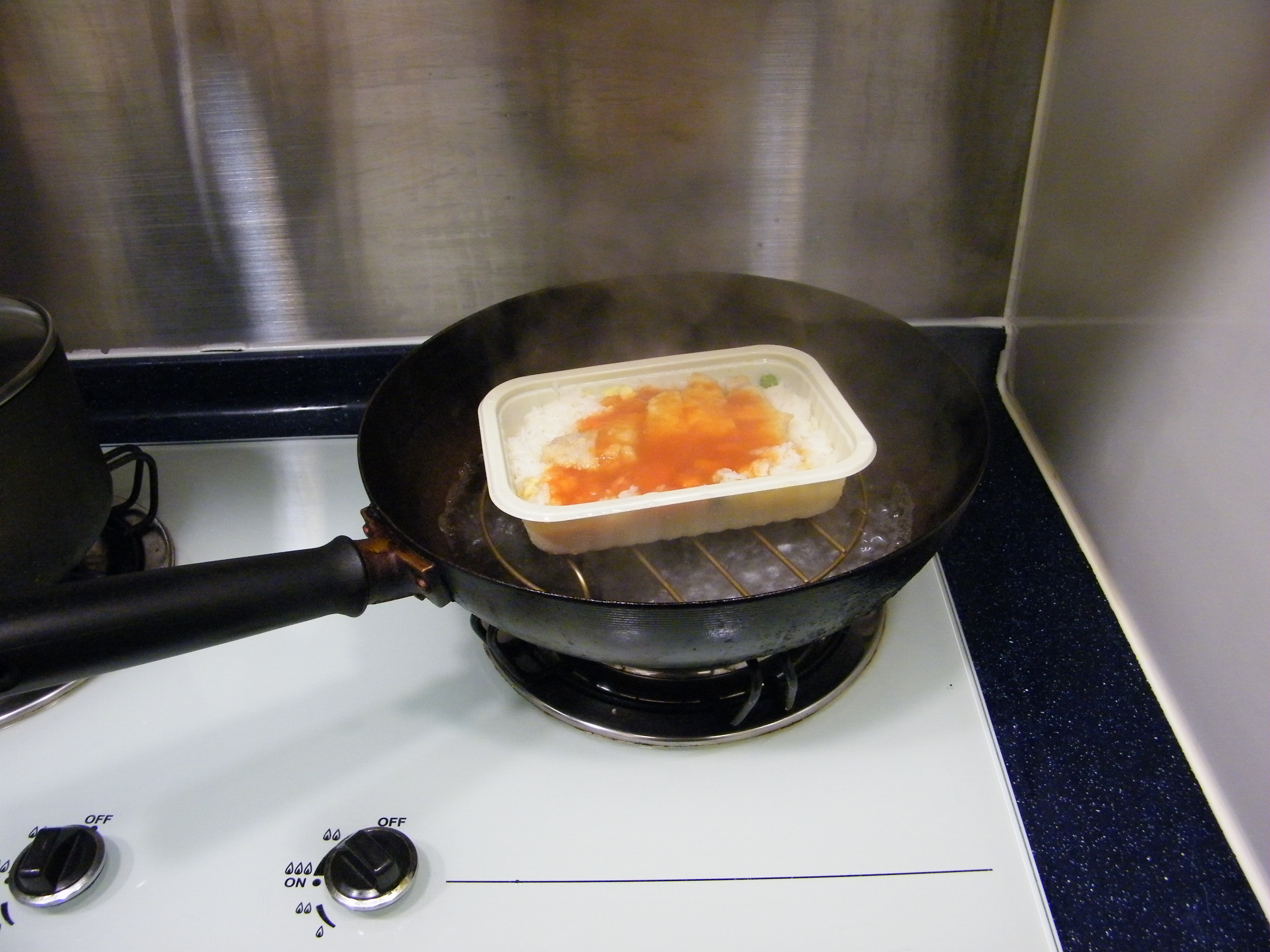 Steaming to reheat a box of commerically sold frozen meal (pork chop with tomato sauce and fried rice) using a wok by placing a metal frame and filling some water. Water level should not be higher than the metal frame. The instruction of the product suggests 15 minute steaming time while 6 minute cooking by a microwave oven.